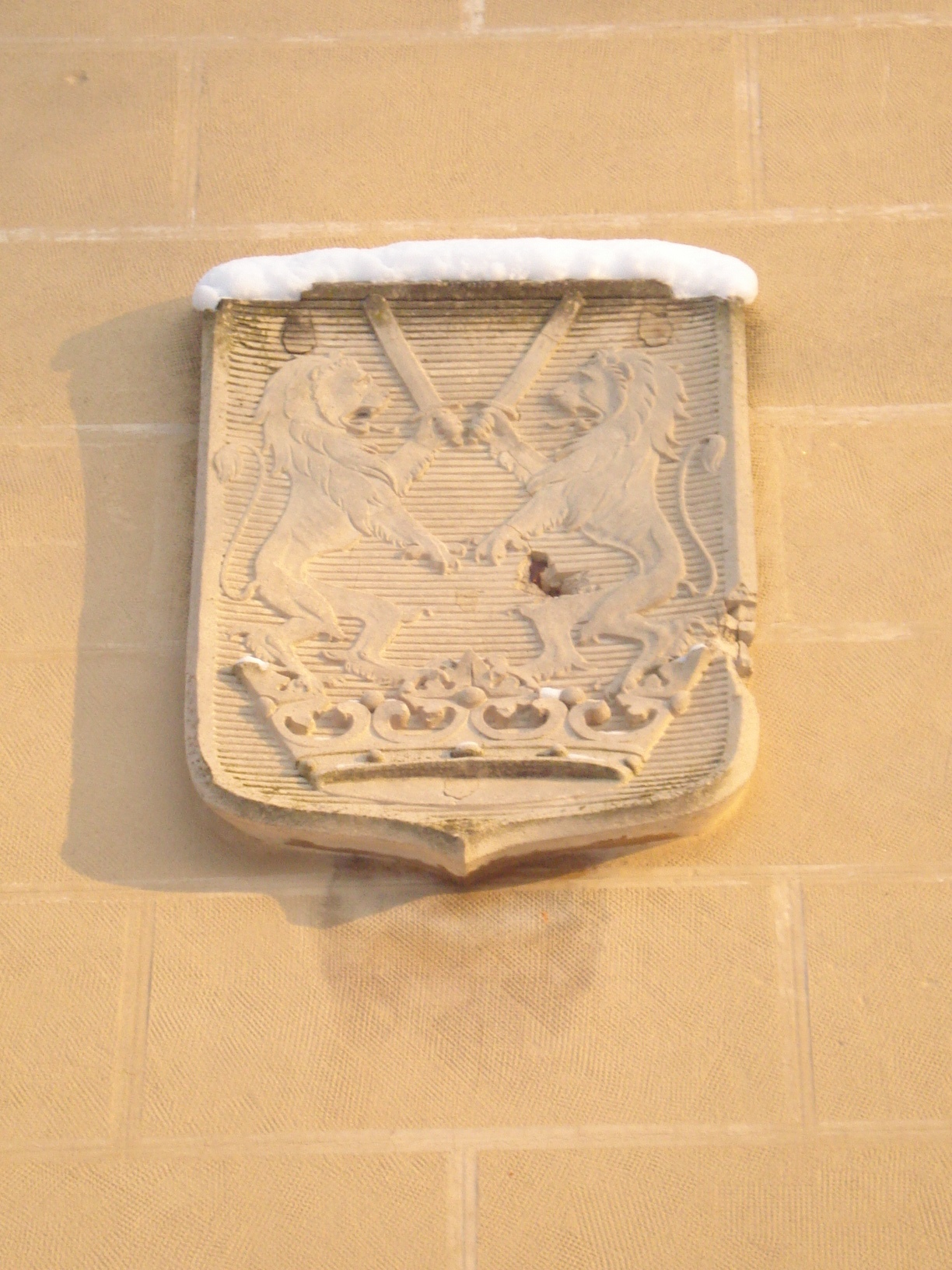 Coat of arms of Feštetić family on Pribislavec castle facade